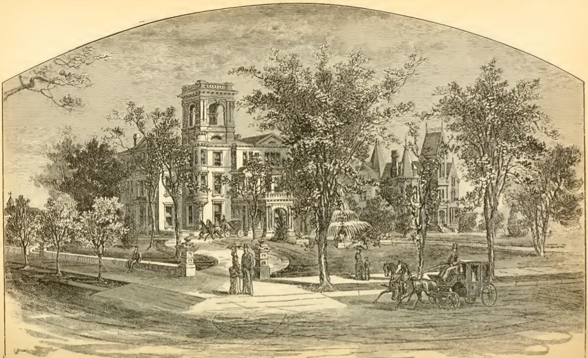 Line drawing of the homes of John Plankinton (on the left) and his son William Plankinton (on the right), as they appeared in 1886.